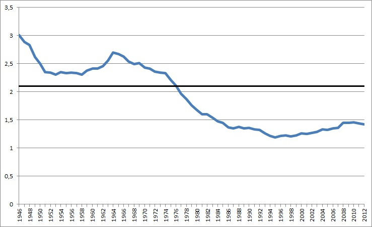 Uploaded originally by user T,C&S on it.wp with the following description: "Figli per donna in Italia 1975-2009" (children per woman in Italy from 1975 to 2009)